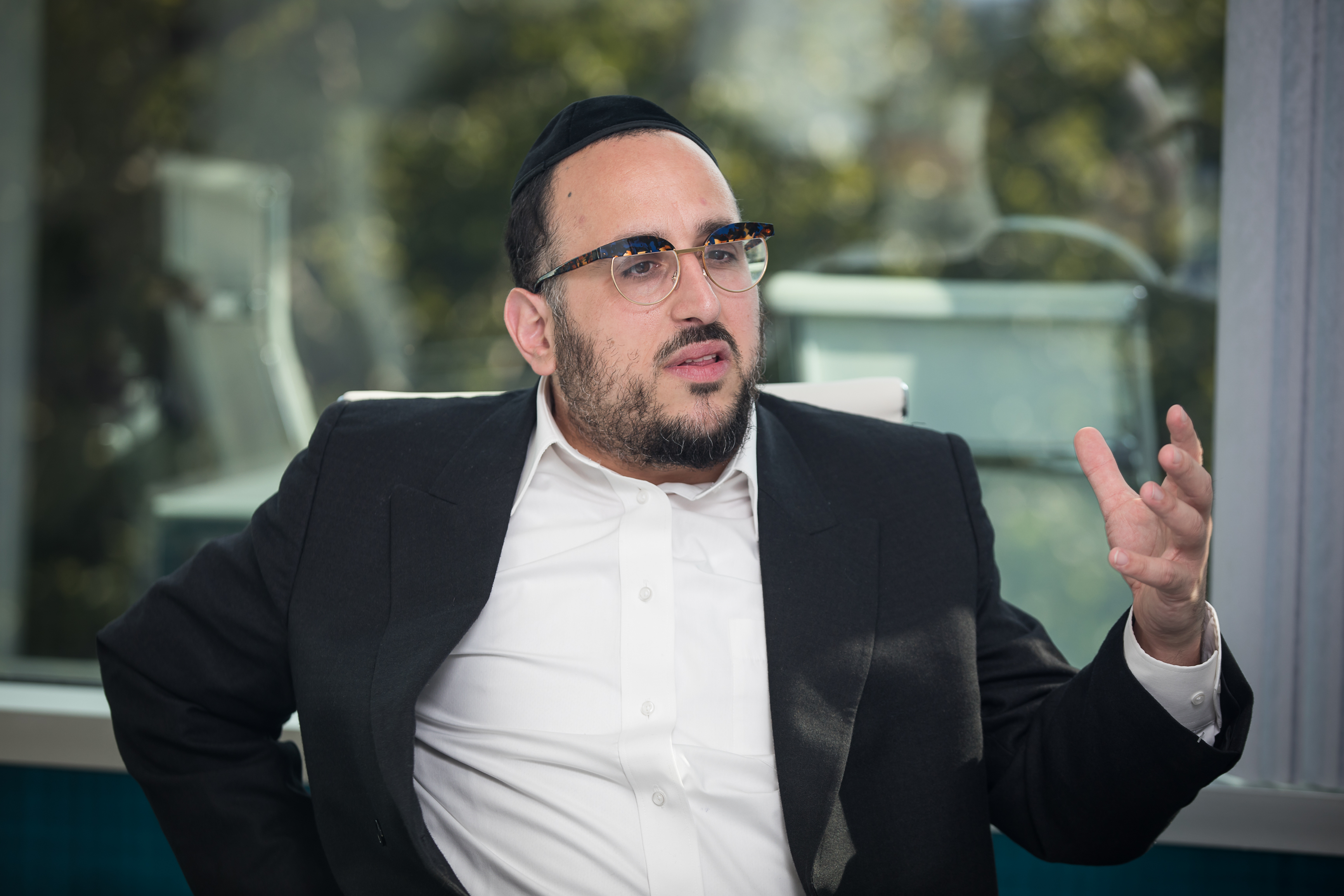 Lipa Schmeltzer Photo